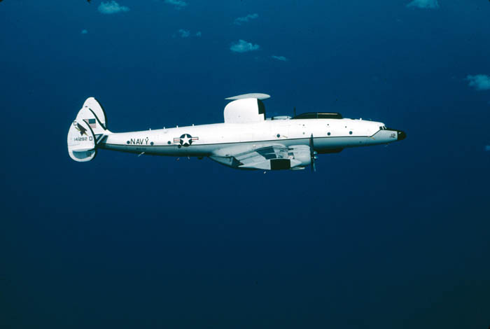 The last U.S. Navy Lockheed "Willy Victor", an NC-121K (BuNo 141292), on it's last flight to Davis-Monthan AFB for retirement in April 1982. It had been in service with Tactical Electronic Warfare Squadron VAQ-33.